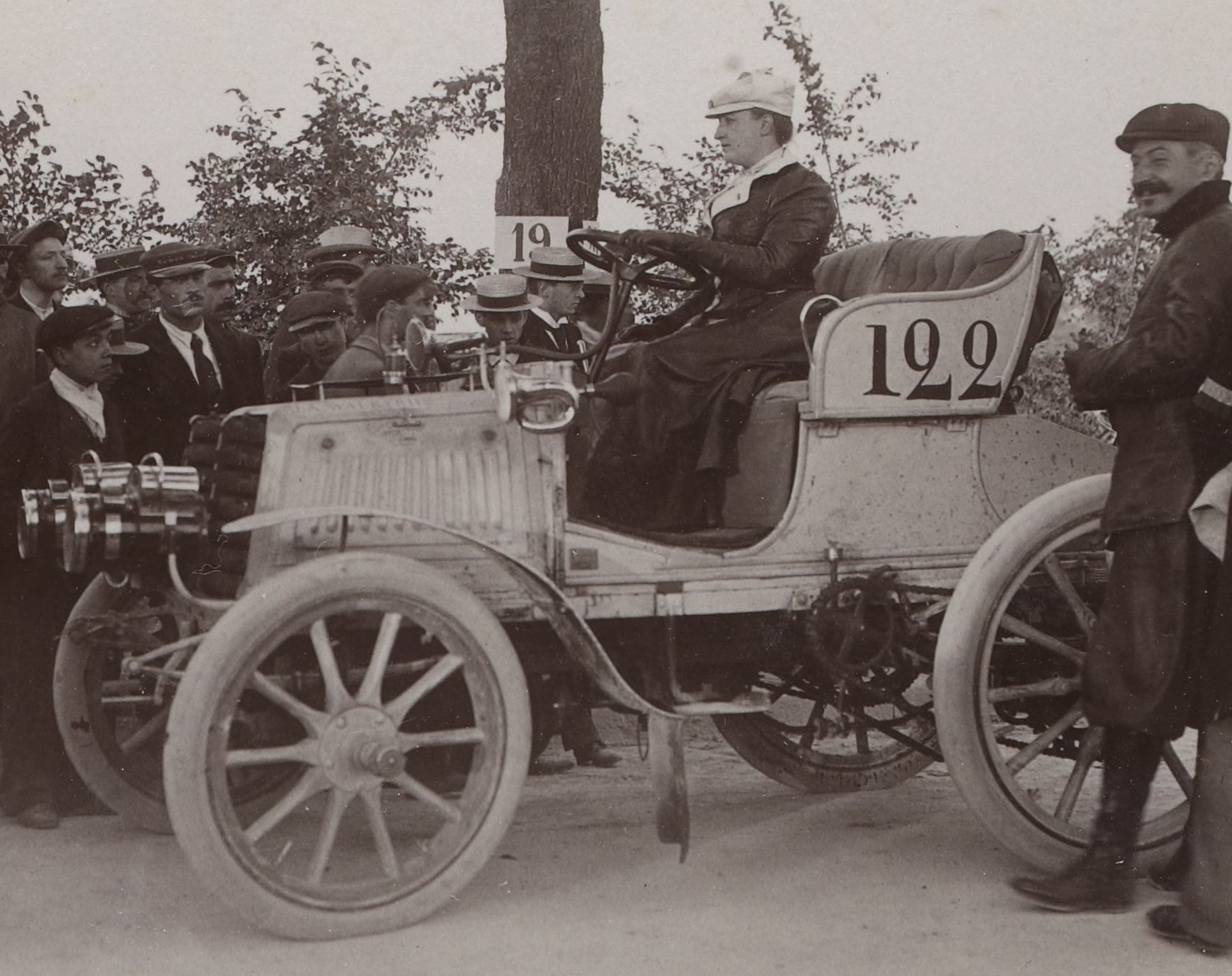 [Collection Jules Beau. Photographie sportive] : T. 14. AnnÃ©e 1901 / Jules Beau : F. 6v. [Paris - Berlin, Grande course annuelle de l' Automobile Club de France, Course de vitesse, 27 -29 juin 1901]